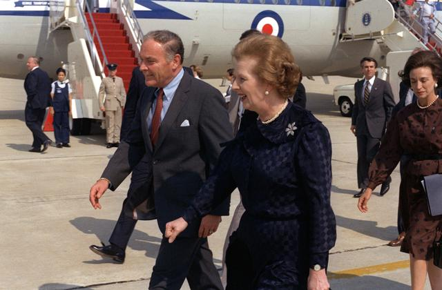 Prime Minister Margaret Thatcher of the United Kingdom is welcomed by Secretary of State Alexander Haig upon arrival for a visit to the United States.